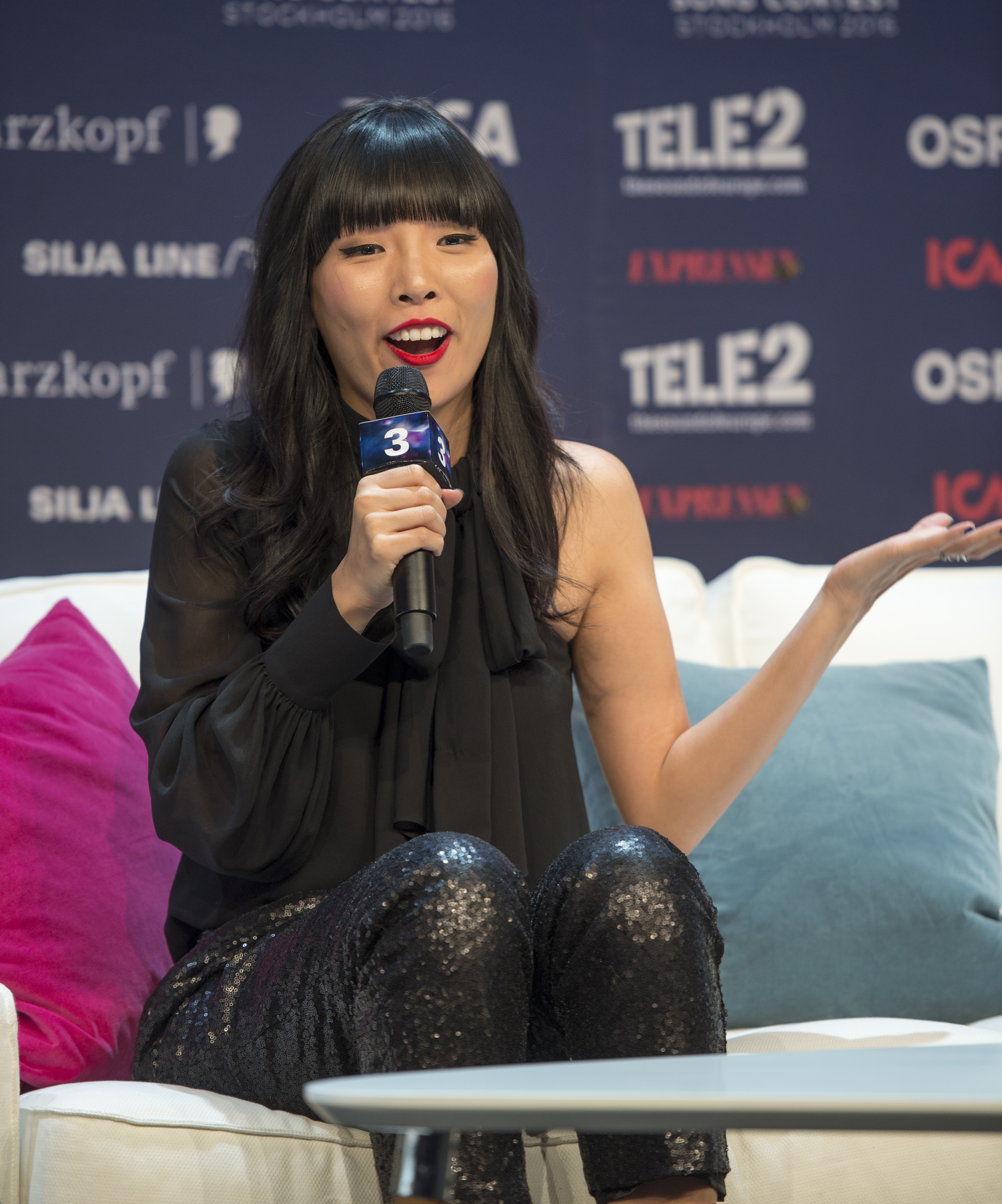 Dami Im at a Meet & Greet during the Eurovision Song Contest 2016 in Stockholm. (Help translate this text)